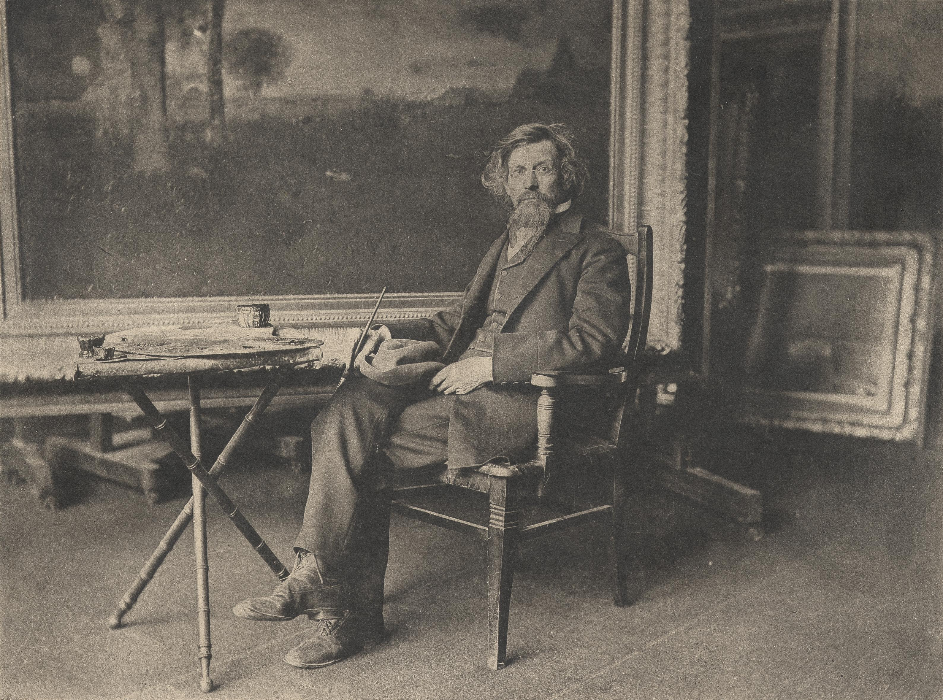 George Inness in his studio, 1893.